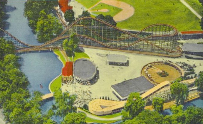 Postcard aerial view of a portion of Hersheypark. Seen from the air are: the Comet roller coaster, the Whip, the Old Mill Chute, the Bug, the miniature railroad station and the twin ferris wheels.